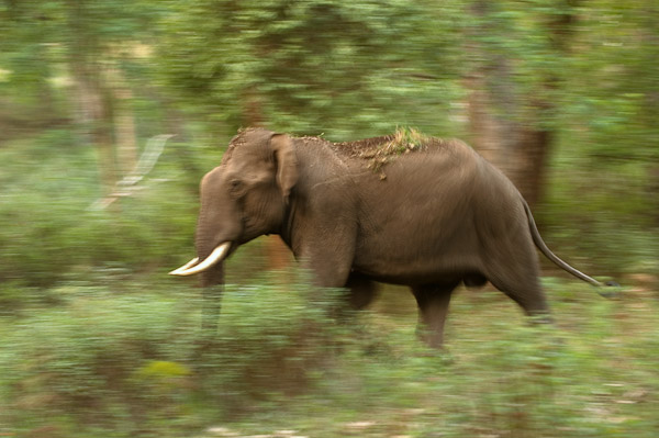 Elephant walking through the forests of BR hills in Karnataka.